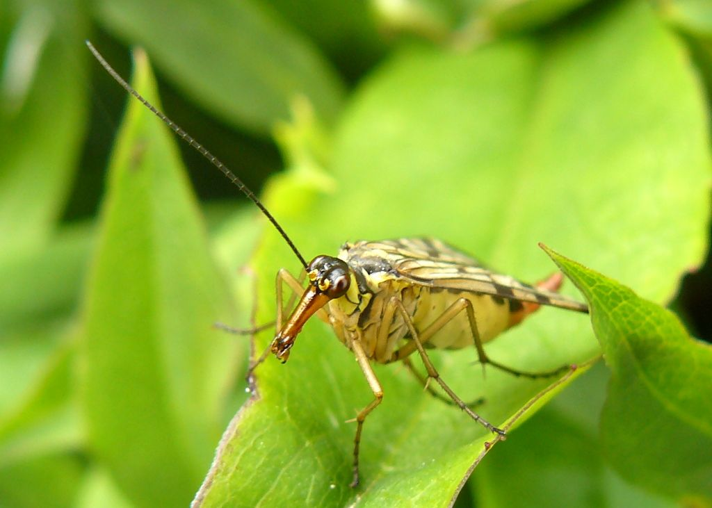 Panorpa communis